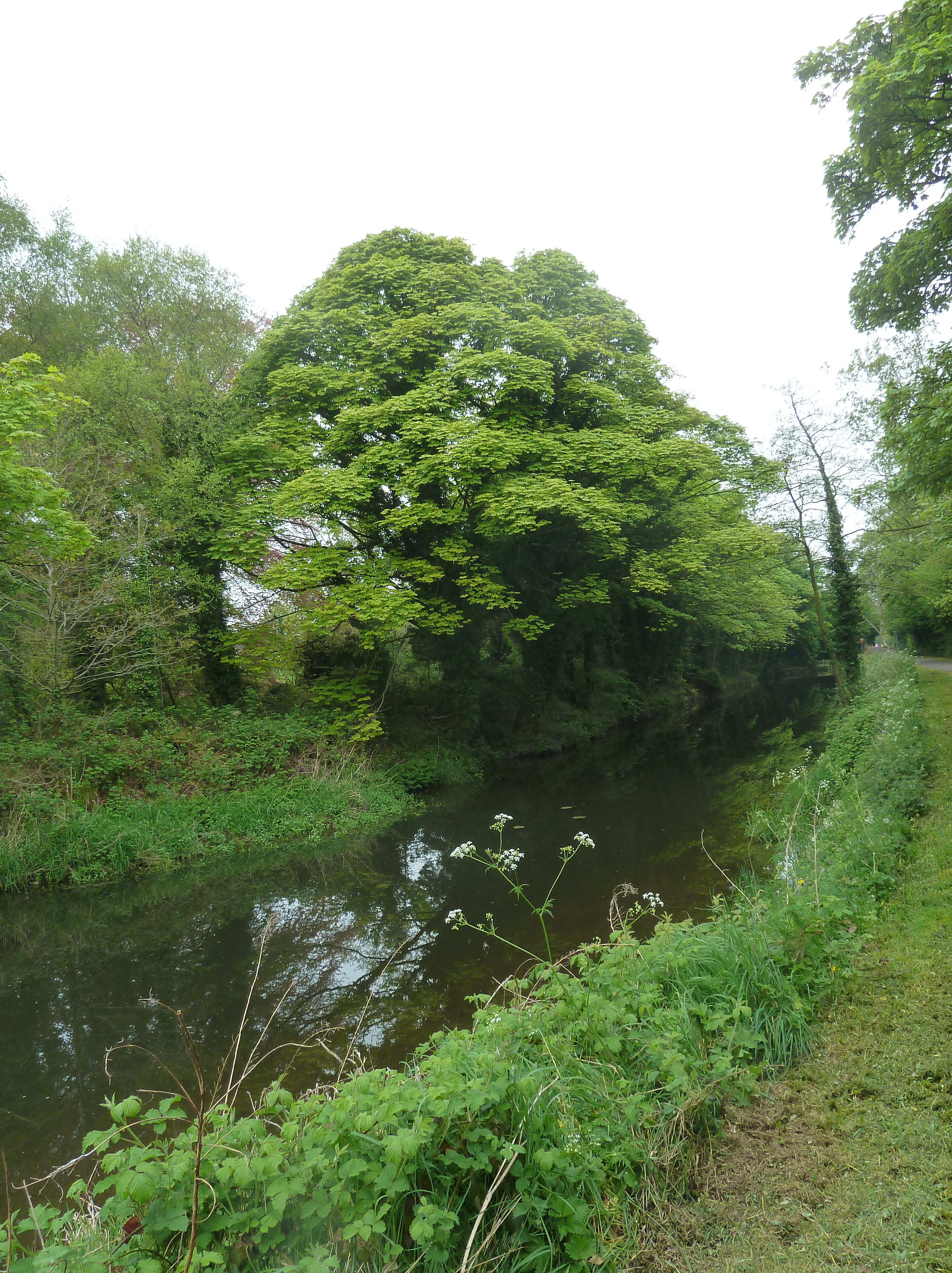 Hilden, Co. Antrim, Ireland early May 2014